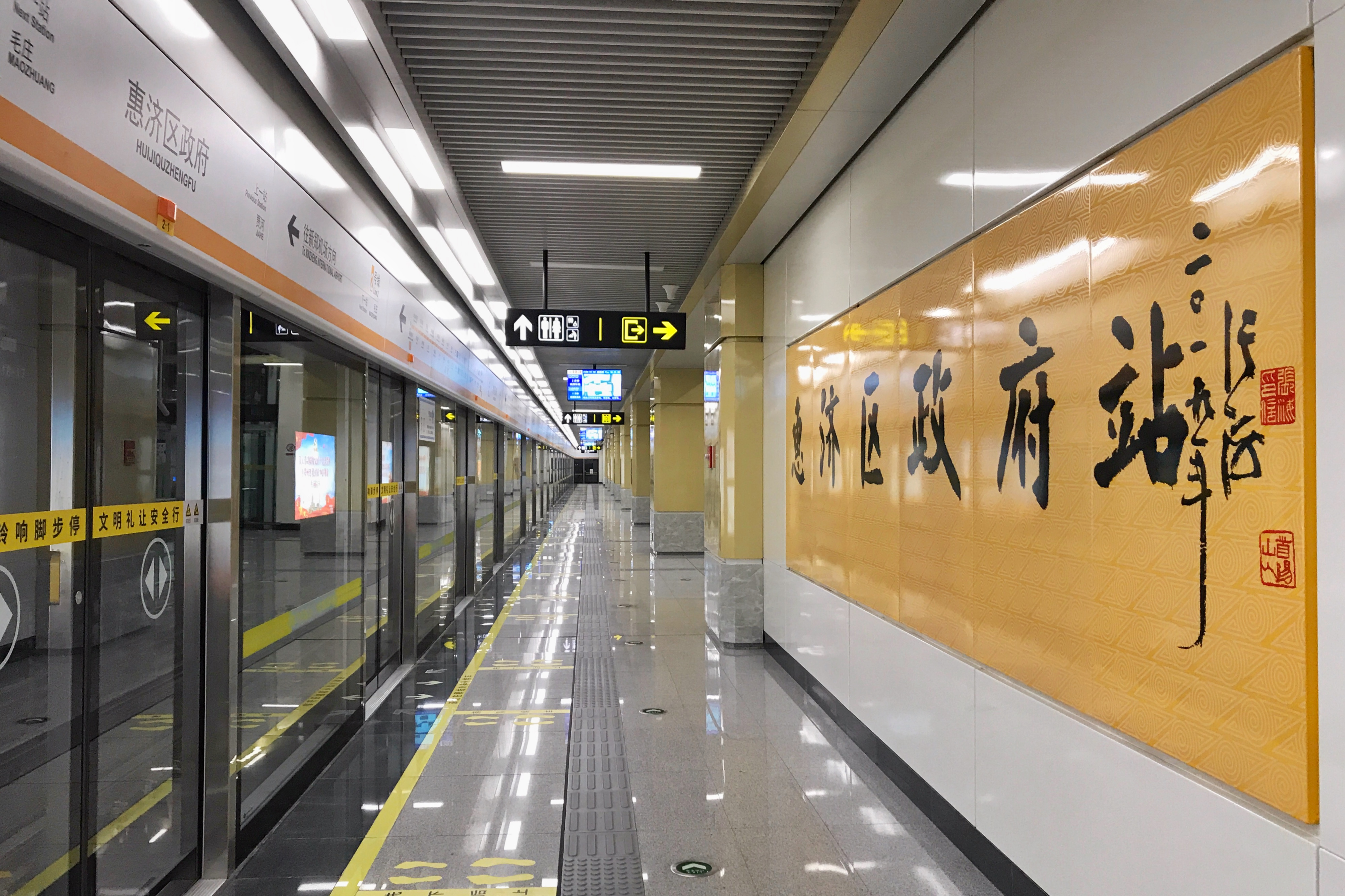 Platform of Huijiquzhengfu Station